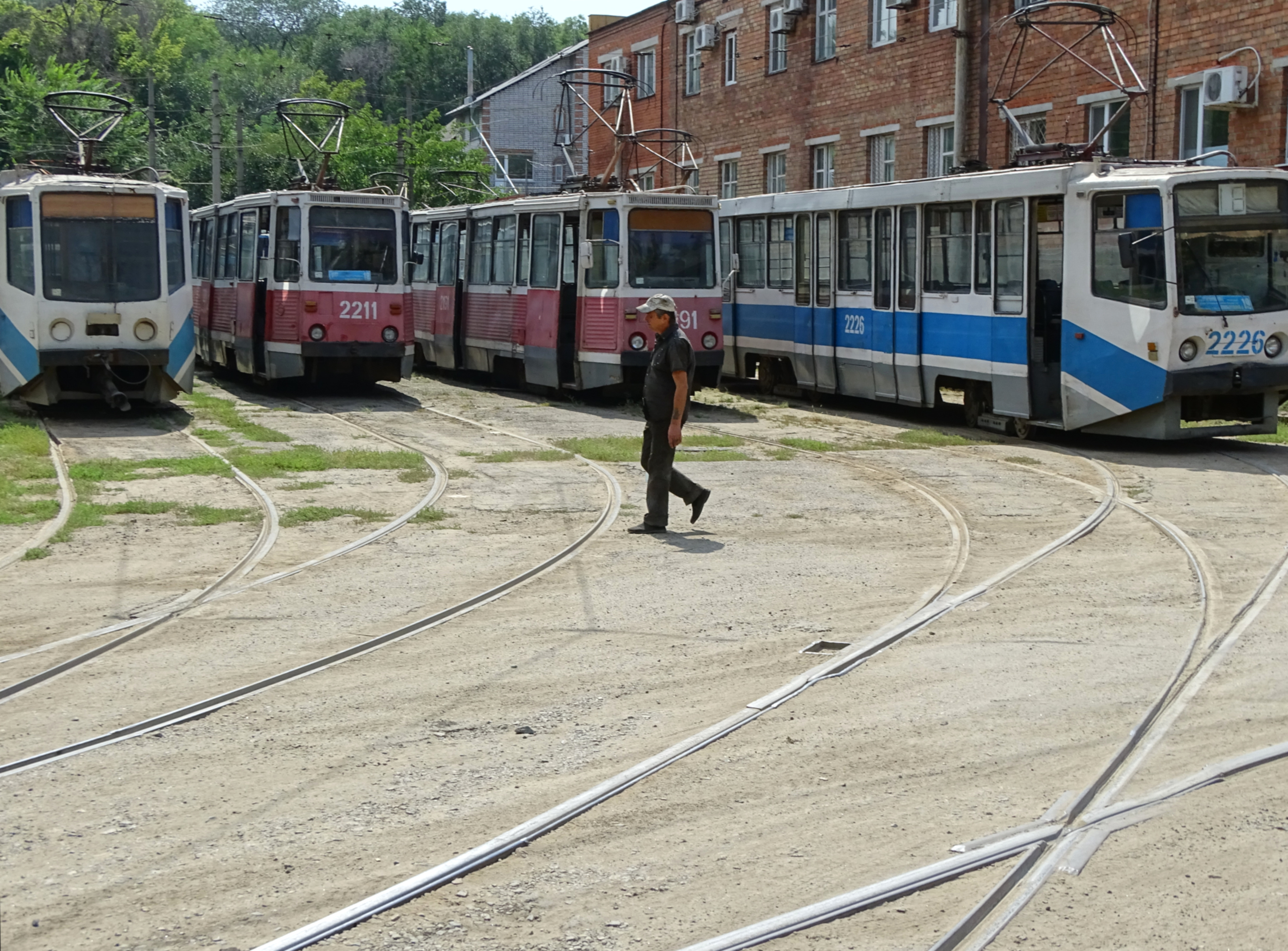 Man Passing Parked Trams - Dnipropetrovsk - Ukraine